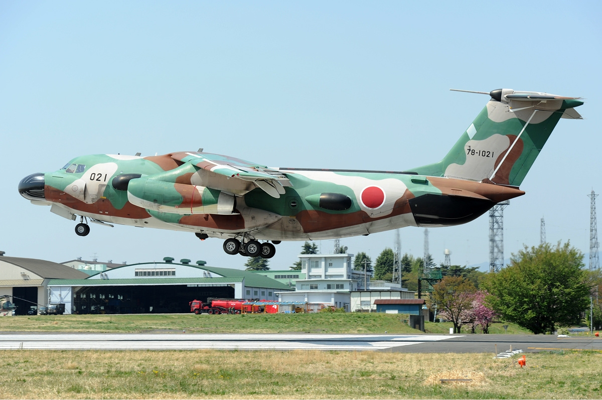 Japan Air Self-Defence Force Kawasaki EC-1